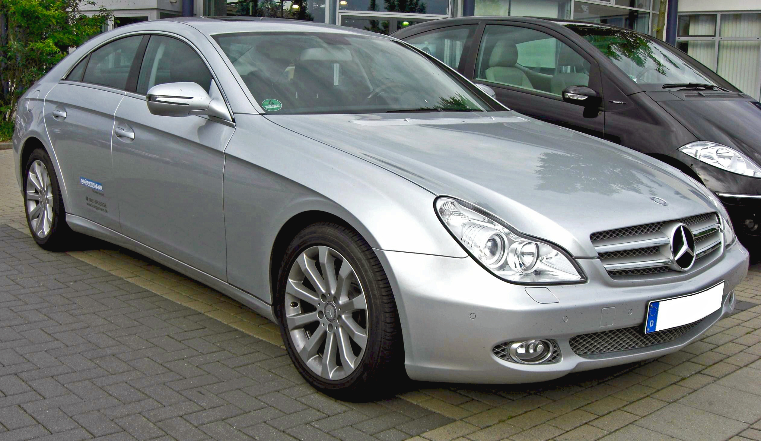 Mercedes CLS Facelift